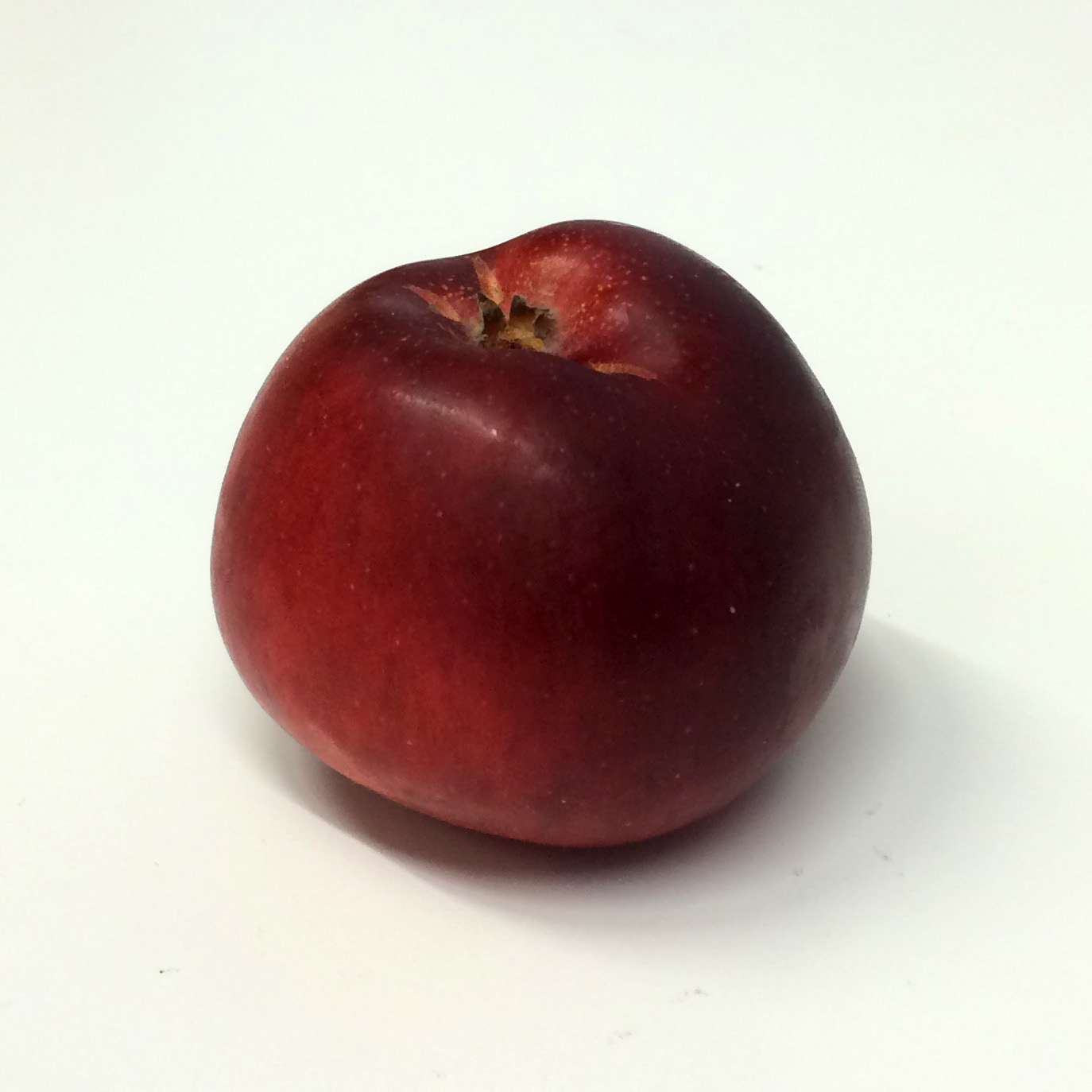 Apple of the cultivar Ölands Kungsäpple, photographed in conjunction with the Apple Festival at Nordiska museet, Stockholm, Sweden in September 2014.